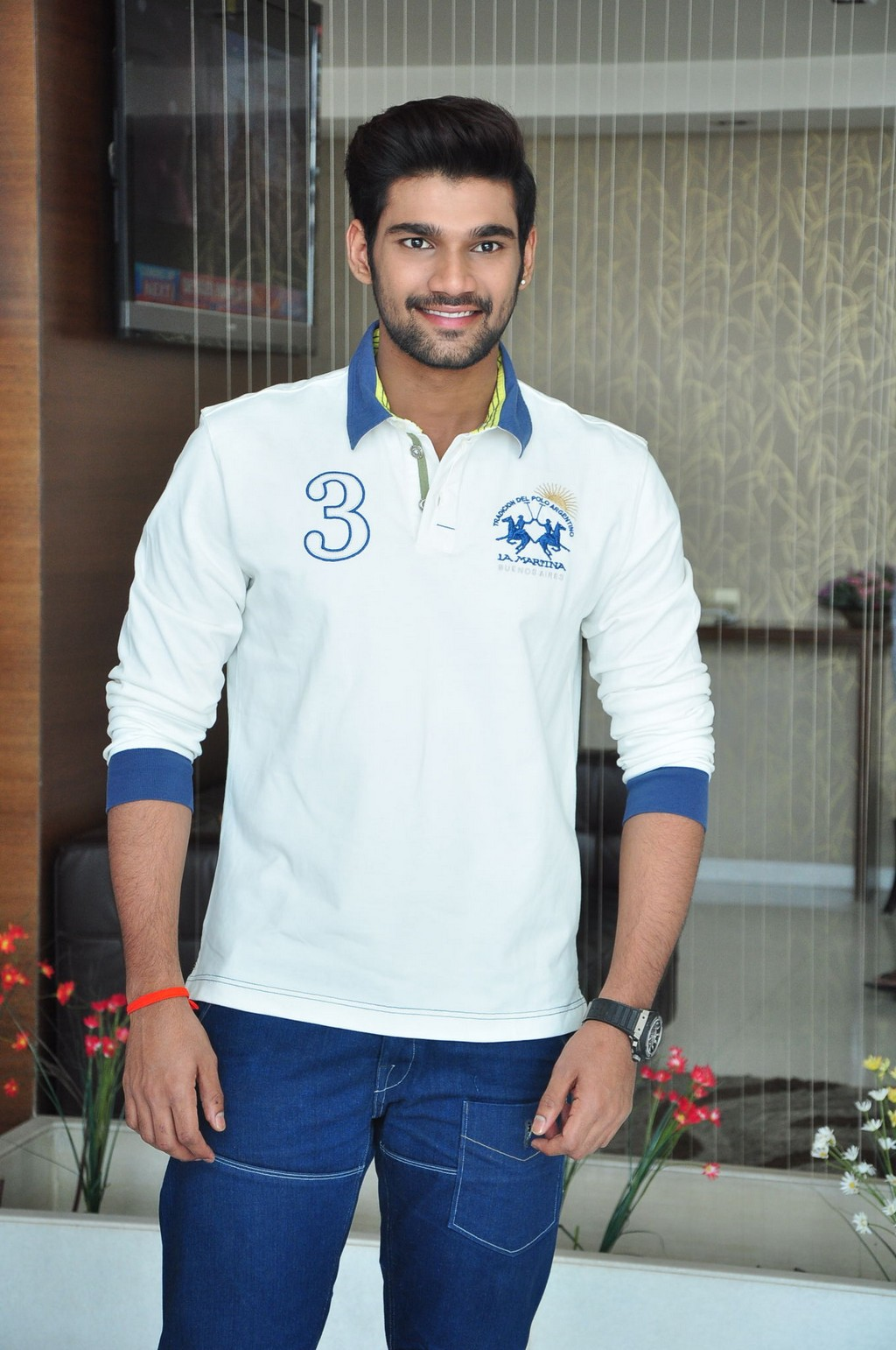 Bellamkonda Sai Srinivas..